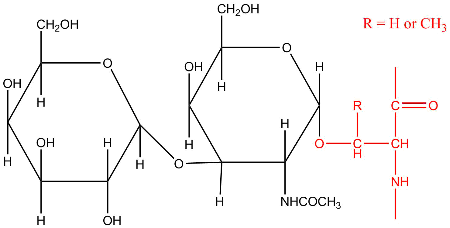 structure of O linked oligosaccharide